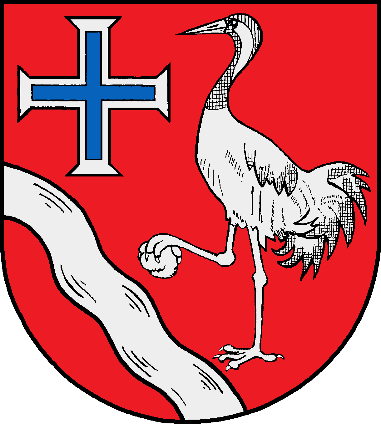 Coat of arms of the municipality Kuddewörde in Schleswig-Holstein, Germany.